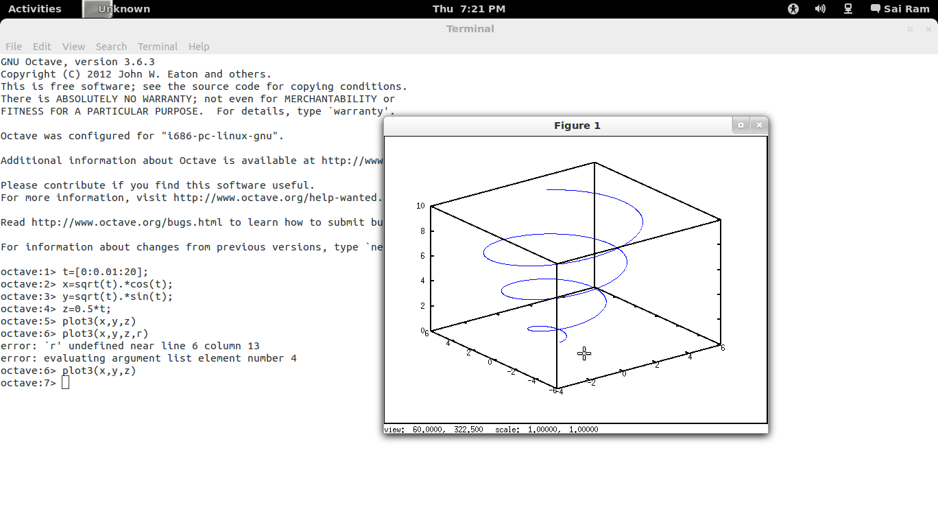 Octave 3.6